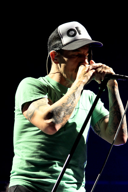 Anthony Kiedis performing with Red Hot Chili Peppers at the Prudential Center in Newark on May 4, 2012